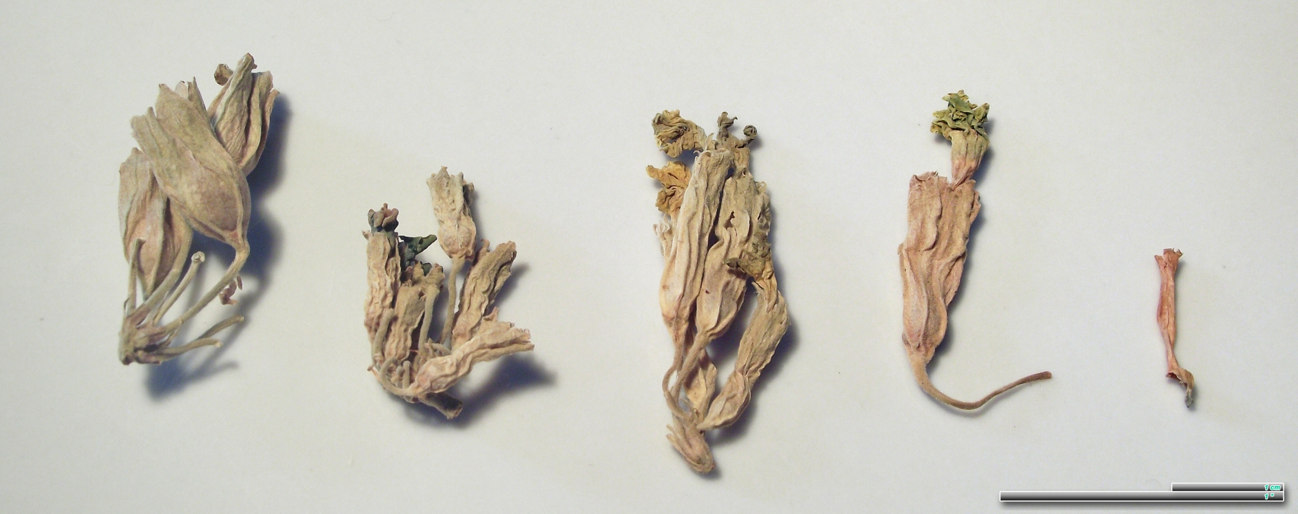 dried Primula veris (Cowslip; syn. Primula officinalis Hill) Flower